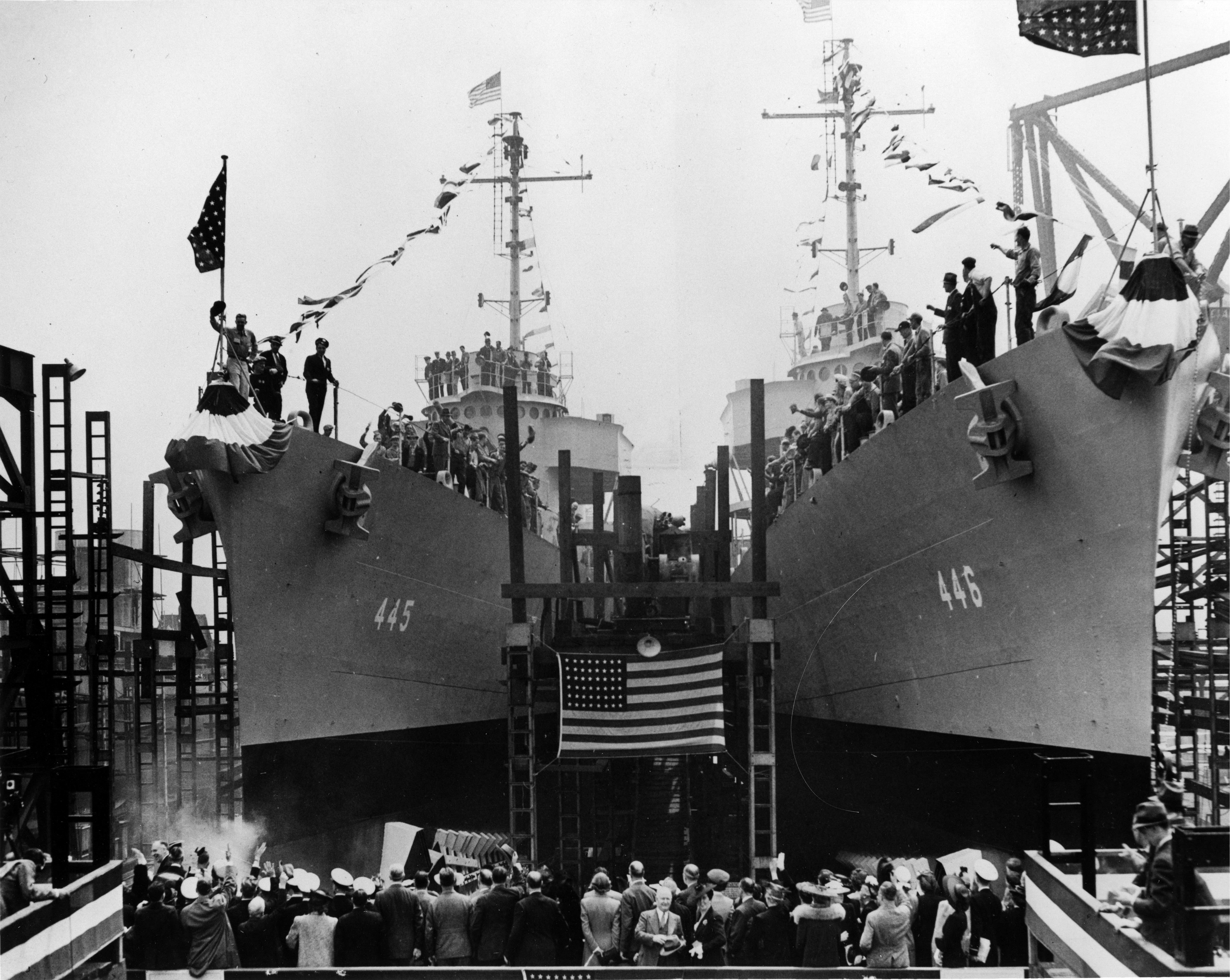 Launching of the U.S. Navy destroyers USS Fletcher (DD-445) and USS Radford (DD-446) at Federal Shipbuilding and Drydock Company, Kearny, New Jersey (USA), on 3 May 1942.